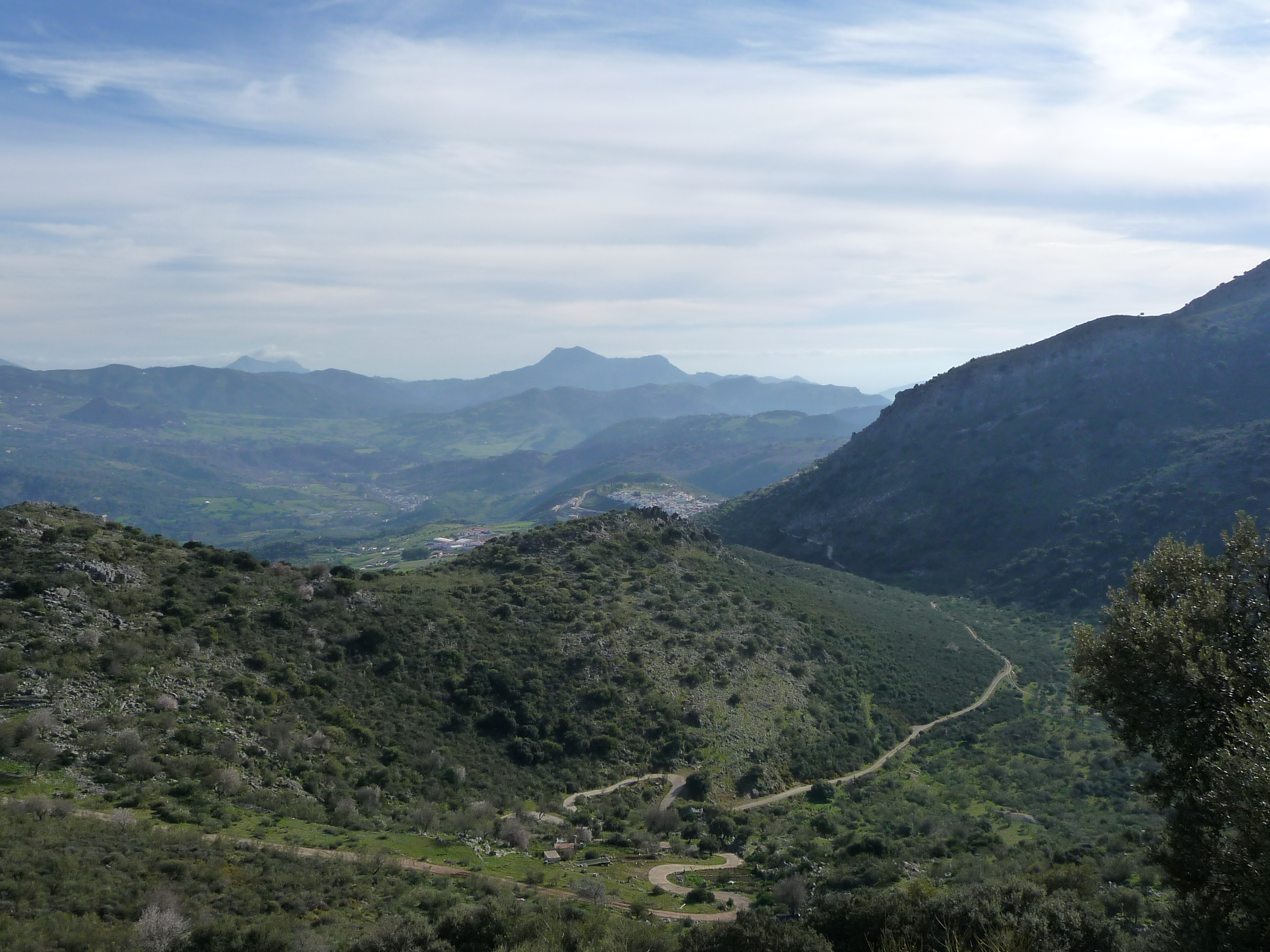 Cortes de la Frontera, Andalusia (Spain)